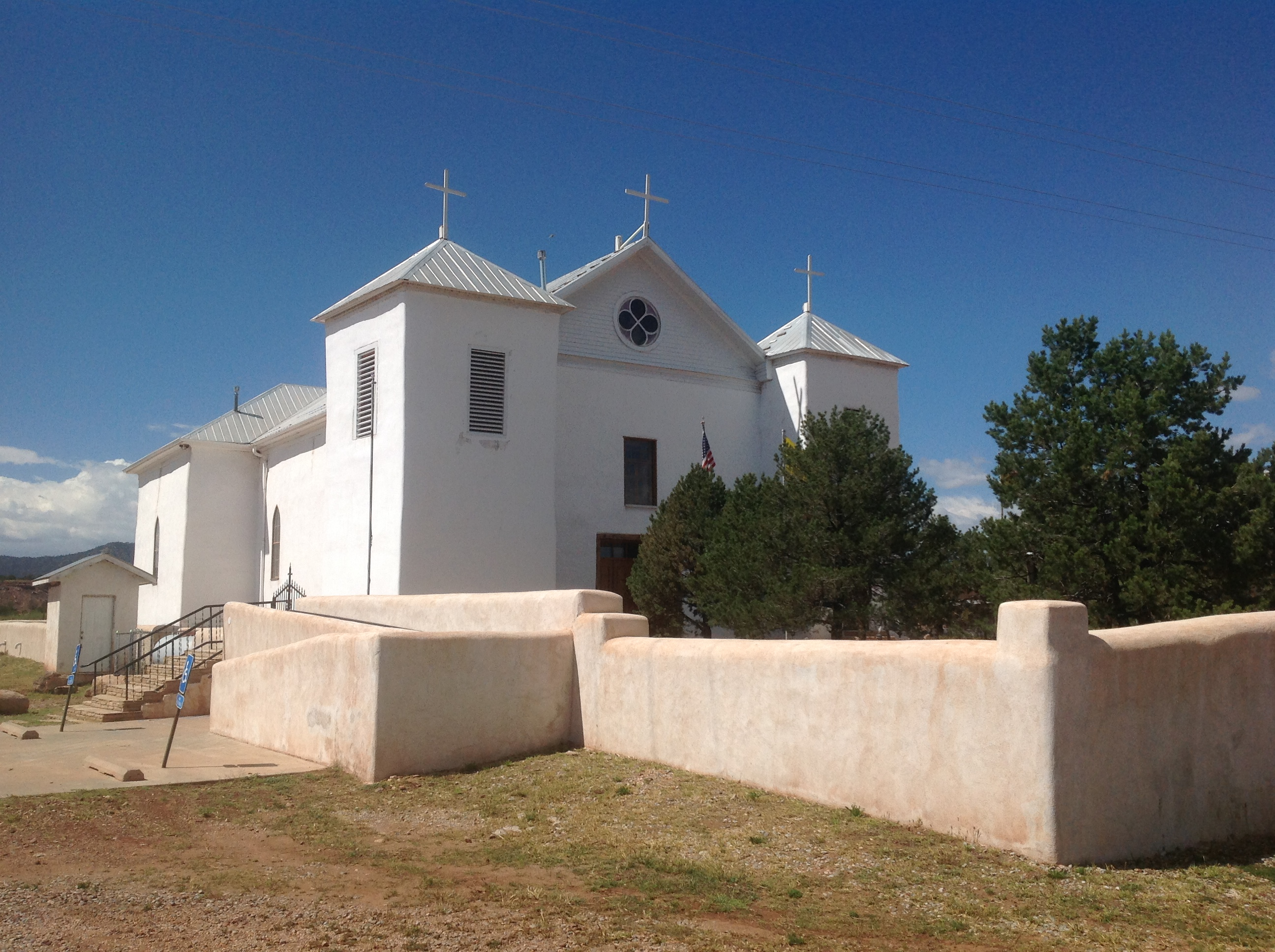 San Miguel del Vado Historic District, Southeast of San Jose on State Road 3, off U.S. Route 84 San Jose